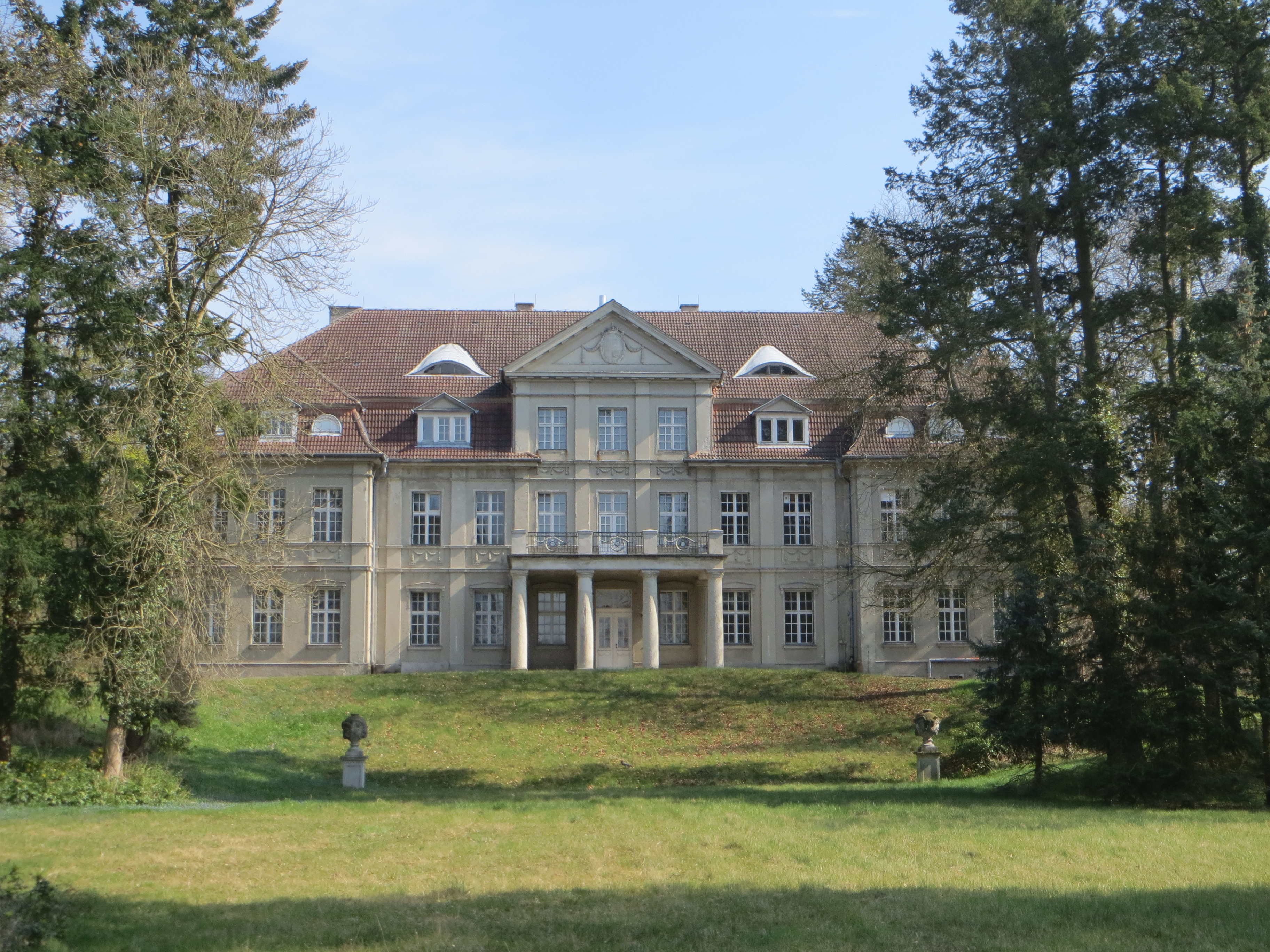 Former palais of Grand Duke Adolf Friedrich VI. in Neustrelitz